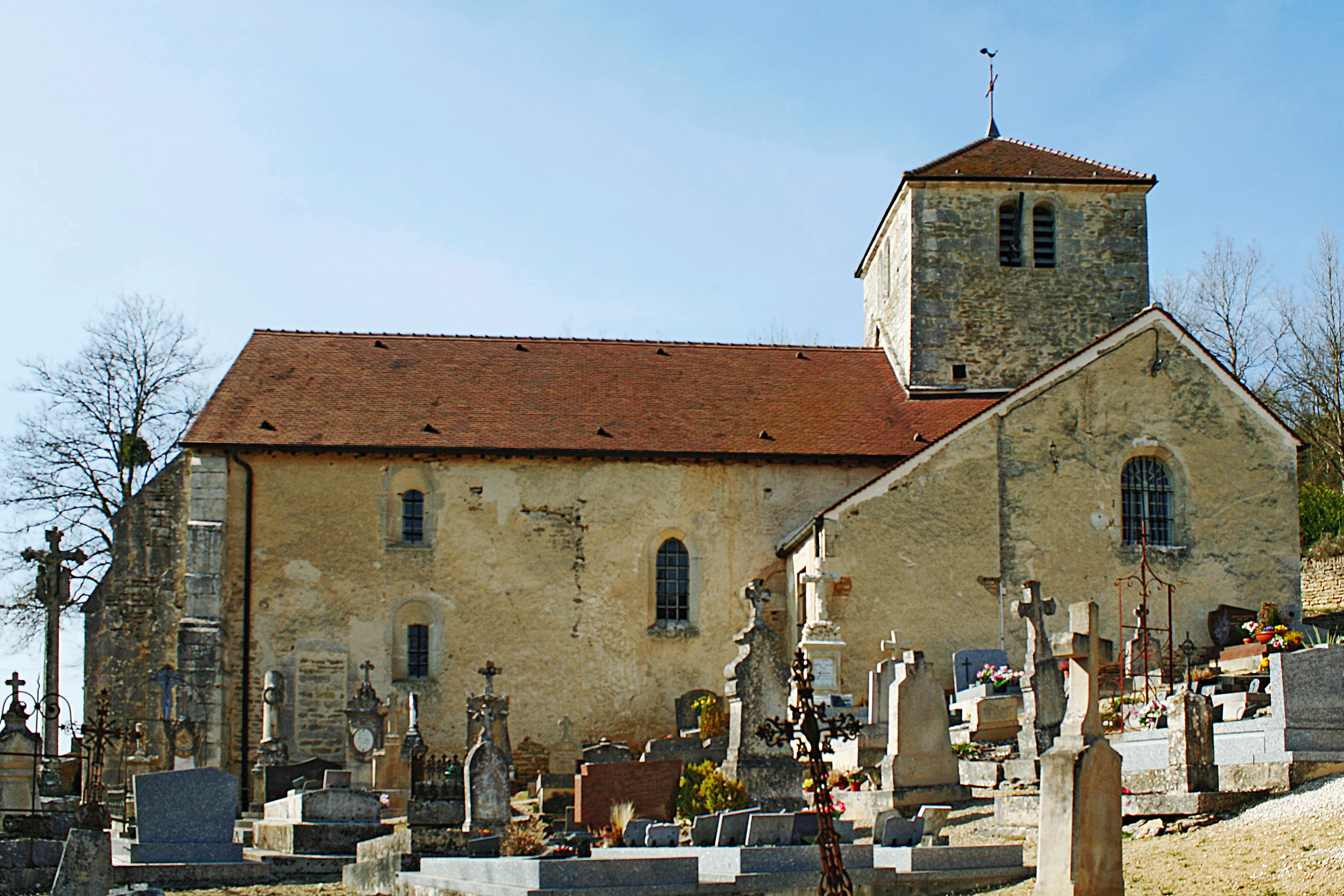 Église Saint-Pierre-Saint-Paul de Bellenod-sur-Seine